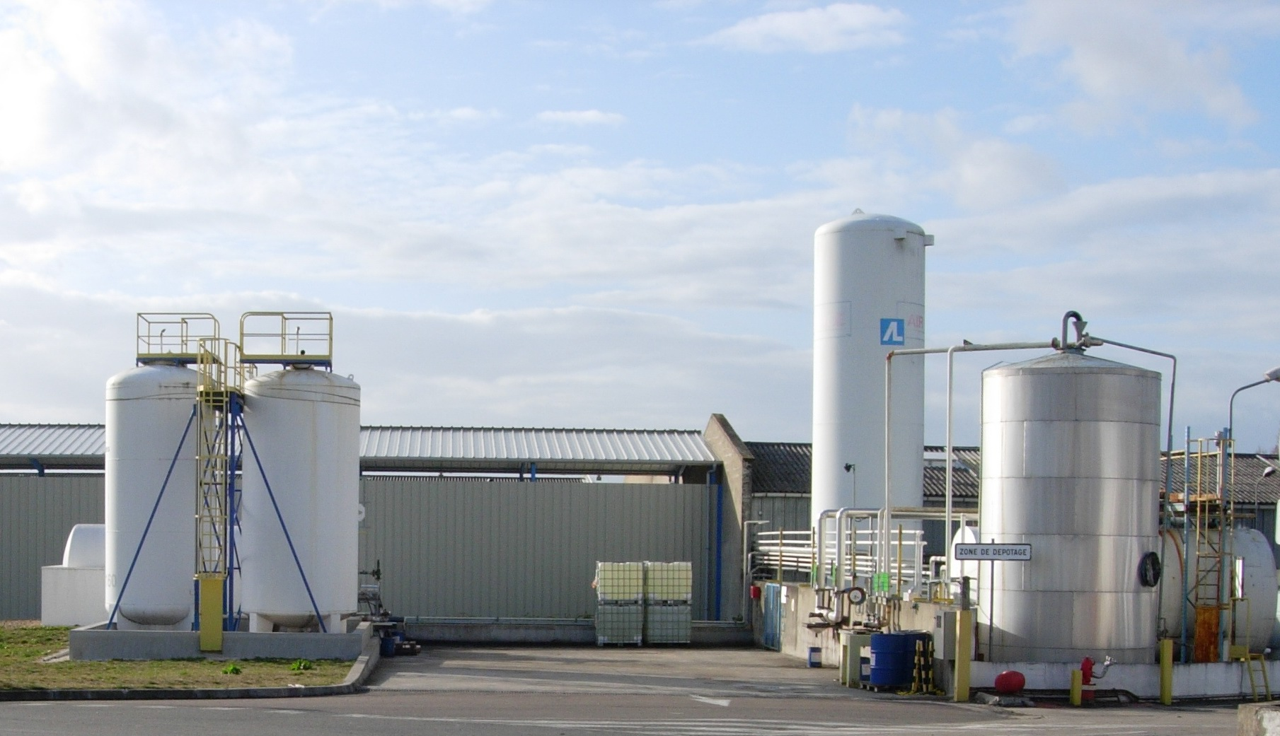 Para-chemical plant in France. Industrial storage tanks for liquid and semi-liquid elastomers, plasticizers and liquid nitrogen.